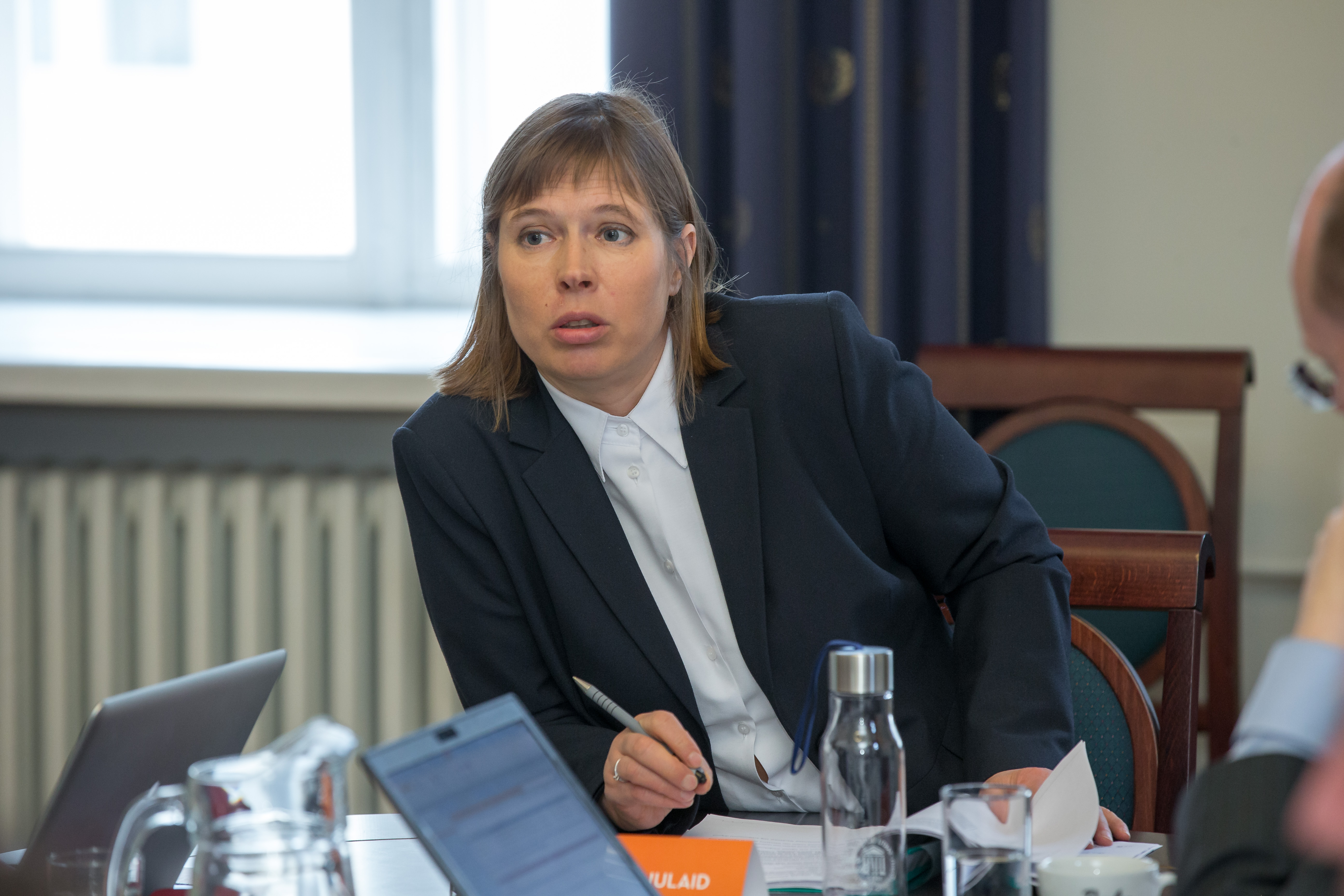 Council of the University of Tartu meeting. Chairman of the Council, Kersti Kaljulaid.